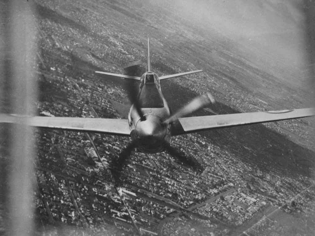 Commonwealth CA-15 (A62-1001 c/n 1054) RAAF piloted by Flt/Lt J.A.L. Archer. Photographed from the rear turret of a Lincoln bomber, Melbourne, Victoria, Australia, ca. 1948